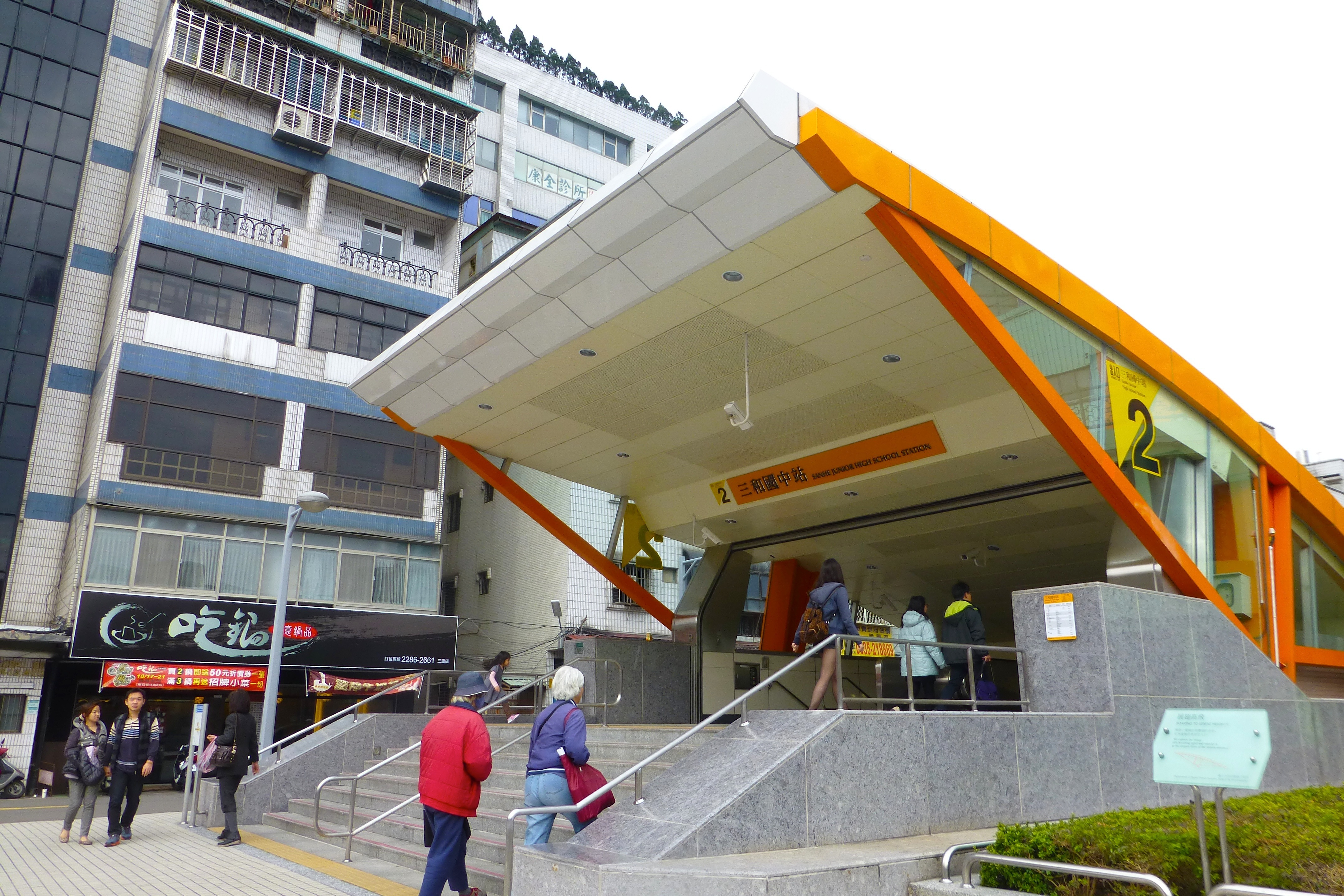 The Taipei Metro Sanhe Junior High School Station (三和國中車站) is a station on the Luzhou Line located in Sanchong District, New Taipei, Taiwan. This is station exit 2, outside.